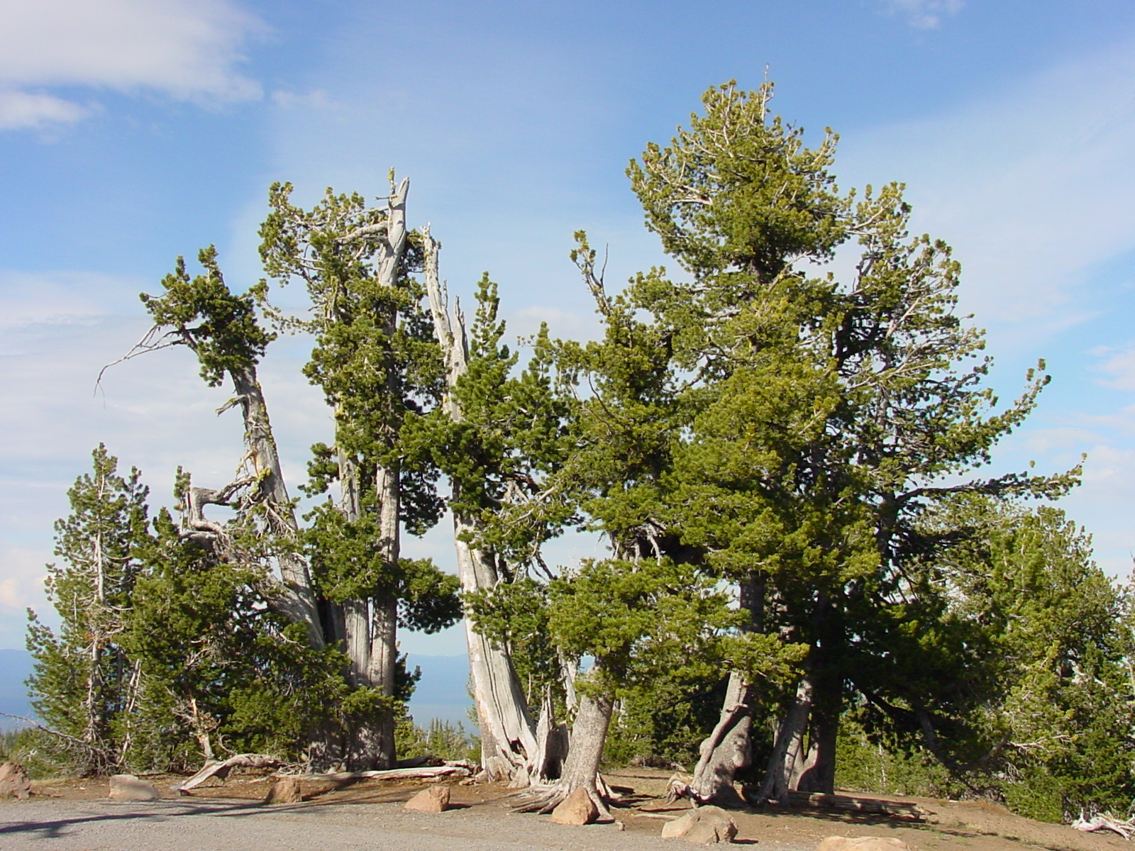 A group of Whitebark Pines